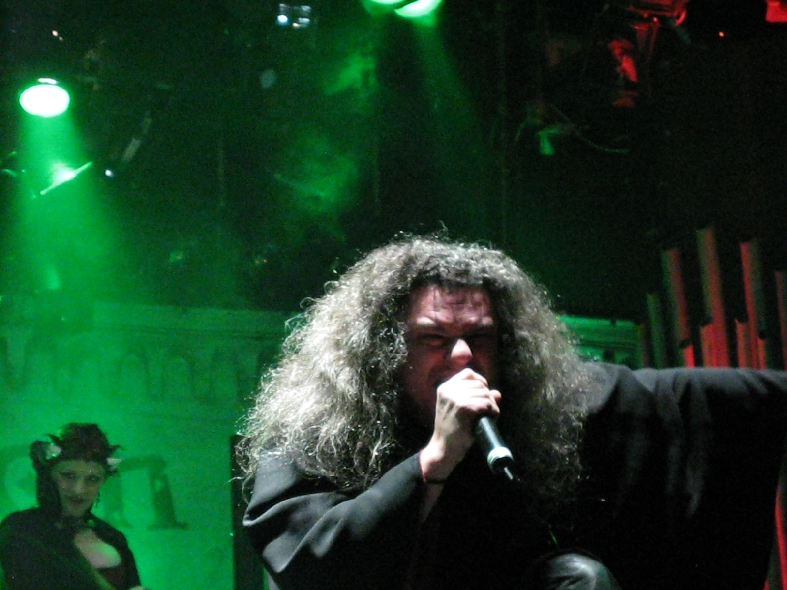 Therion at The Fridge in Brixton, 2007-12-16.